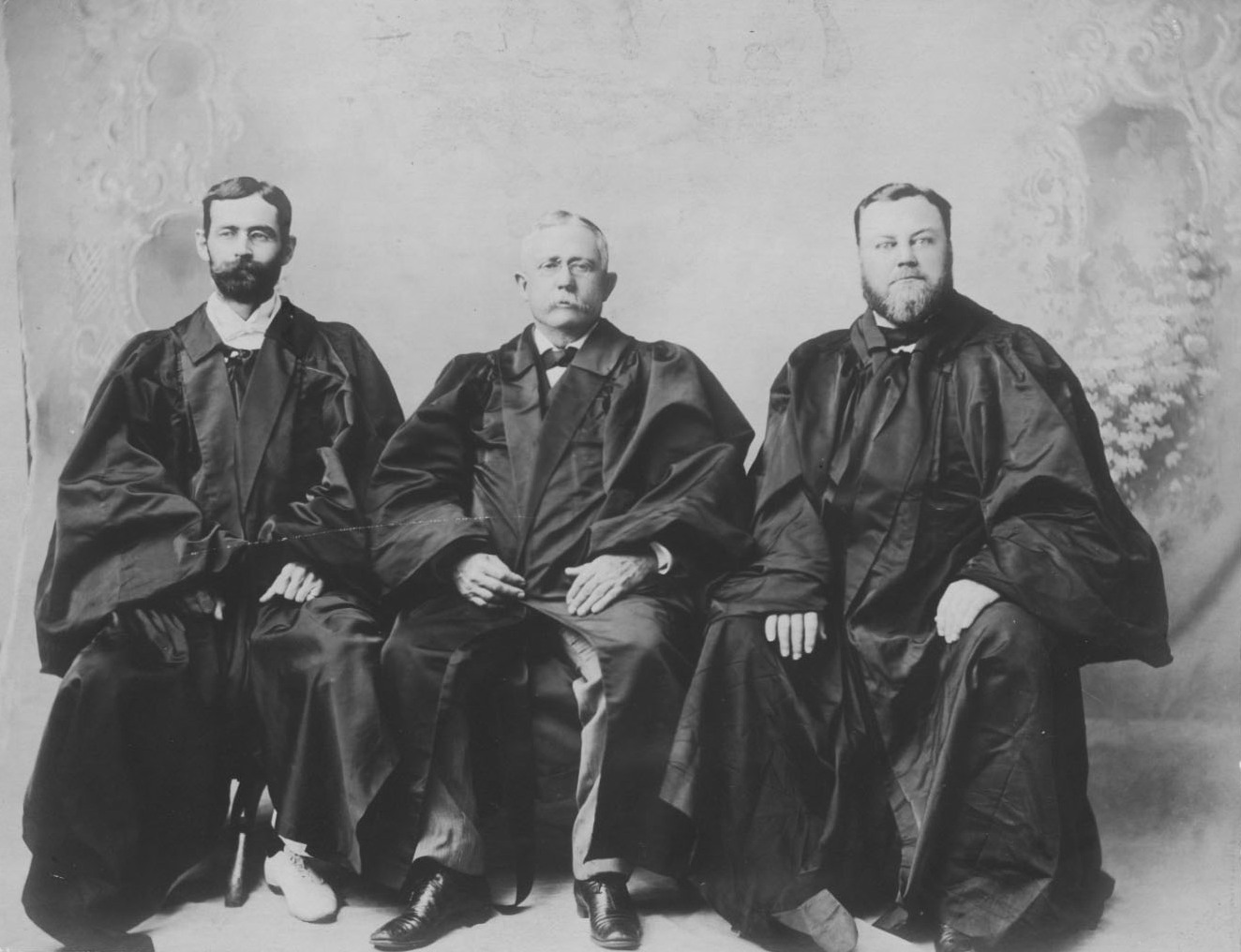 Hawaiian Supreme Court Justices of the Republic of Hawaii between 1896 and 1900. Pictured left to right: Walter Francis Frear, Albert Francis Judd and William Austin Whiting.